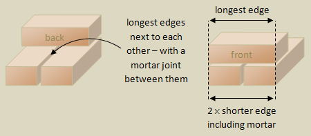 Brick dimensions